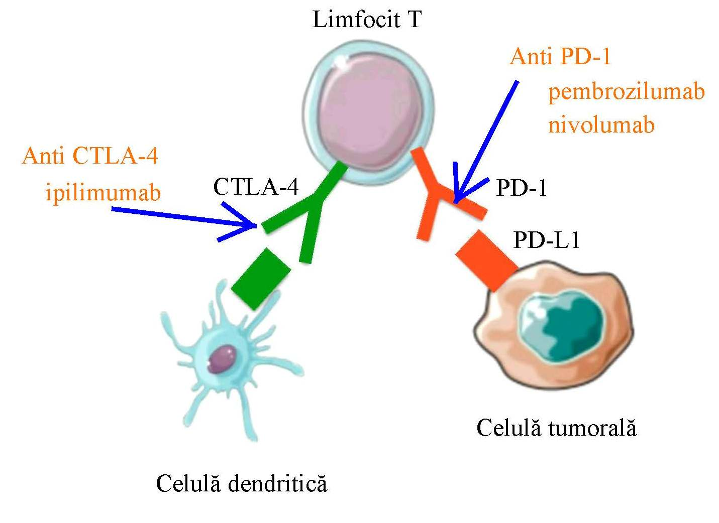 CTLA-4 and PD-1 monoclonal antibody